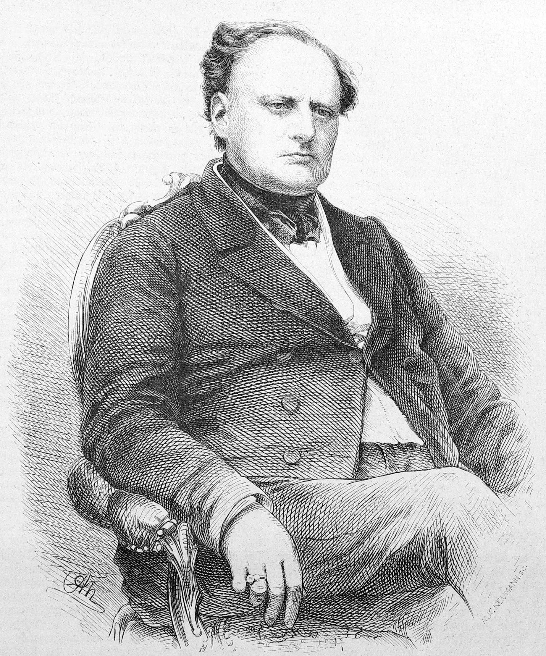 caption: "Der Reichstagsabgeordnete Edler von Mühlfeld."